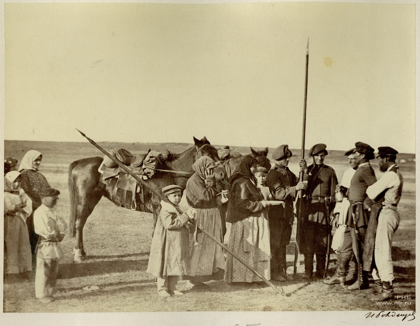 Don Cossacks farewell for the army service. September 1876, Russian Empire.